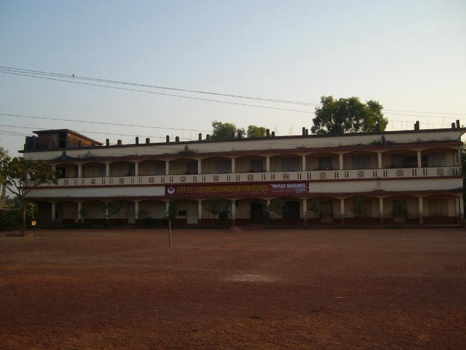 office building